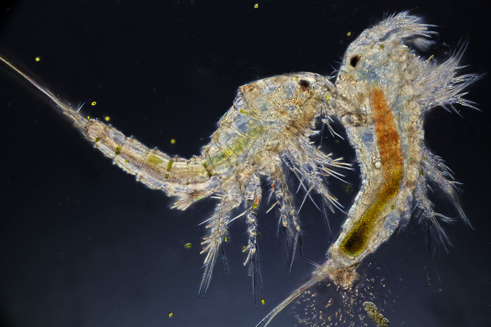 Copepods belong to the Crustacea